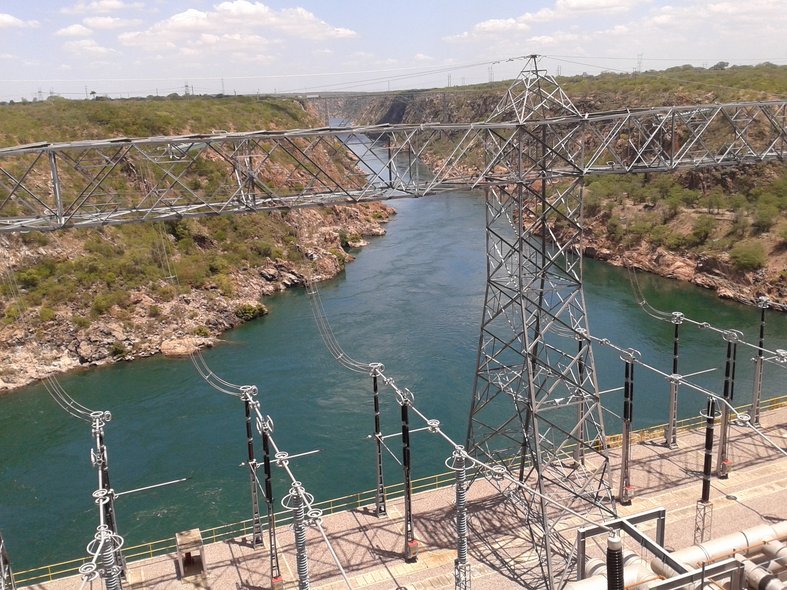 Landscape of the San Francisco River in connection with the facilities of Hydroelectric Paulo Afonso, Bahia.